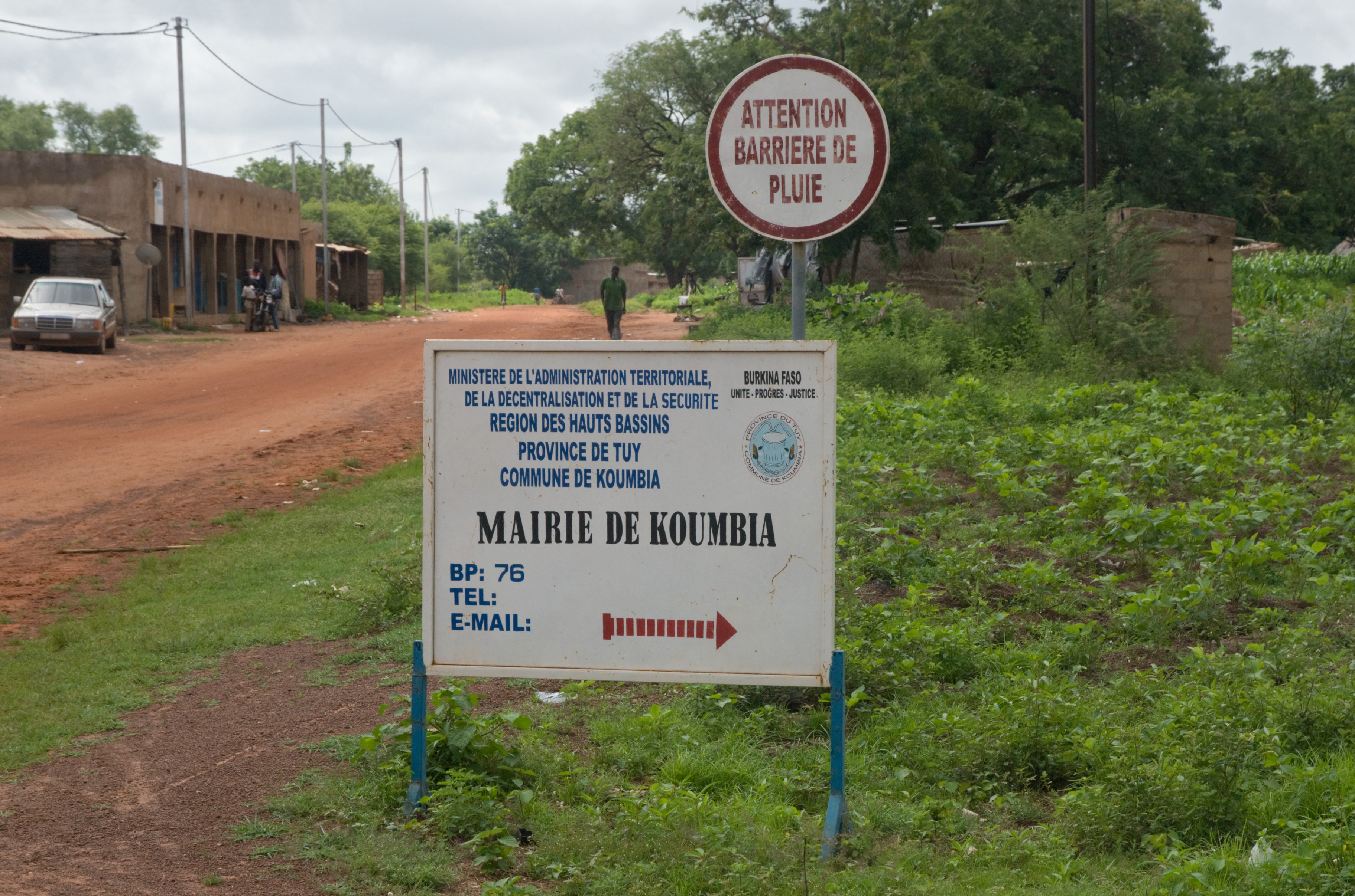 Street in Koumbia with sign pointing to the town hall (August 2017)